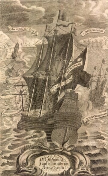 A ship on a journey in the 17th century to SE Asia